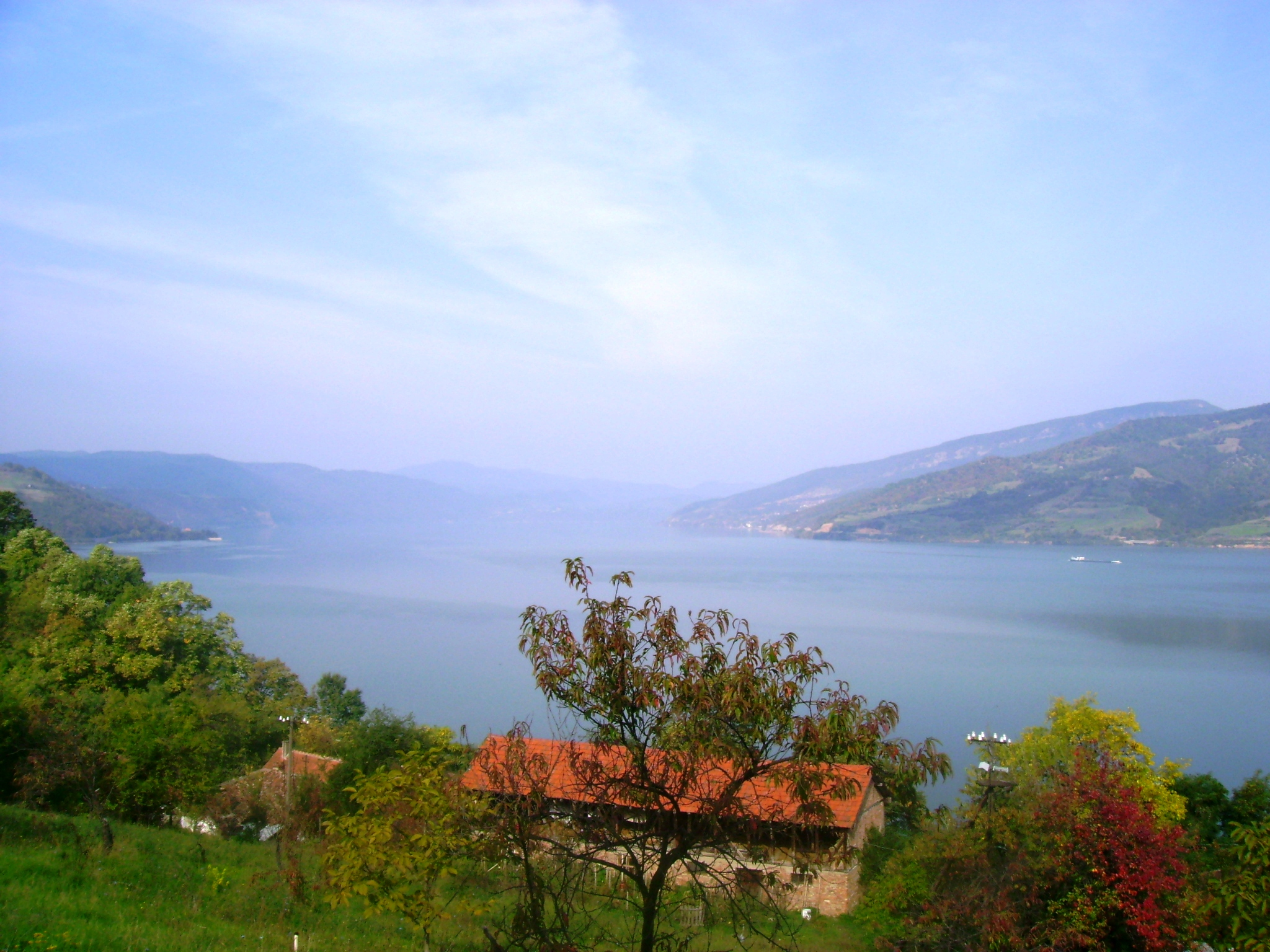 Donji Milanovac is a town in eastern Serbia. It is situated in the Majdanpek municipality, in the Bor District. It is located on right bank of Lake ?erdap on Danube.